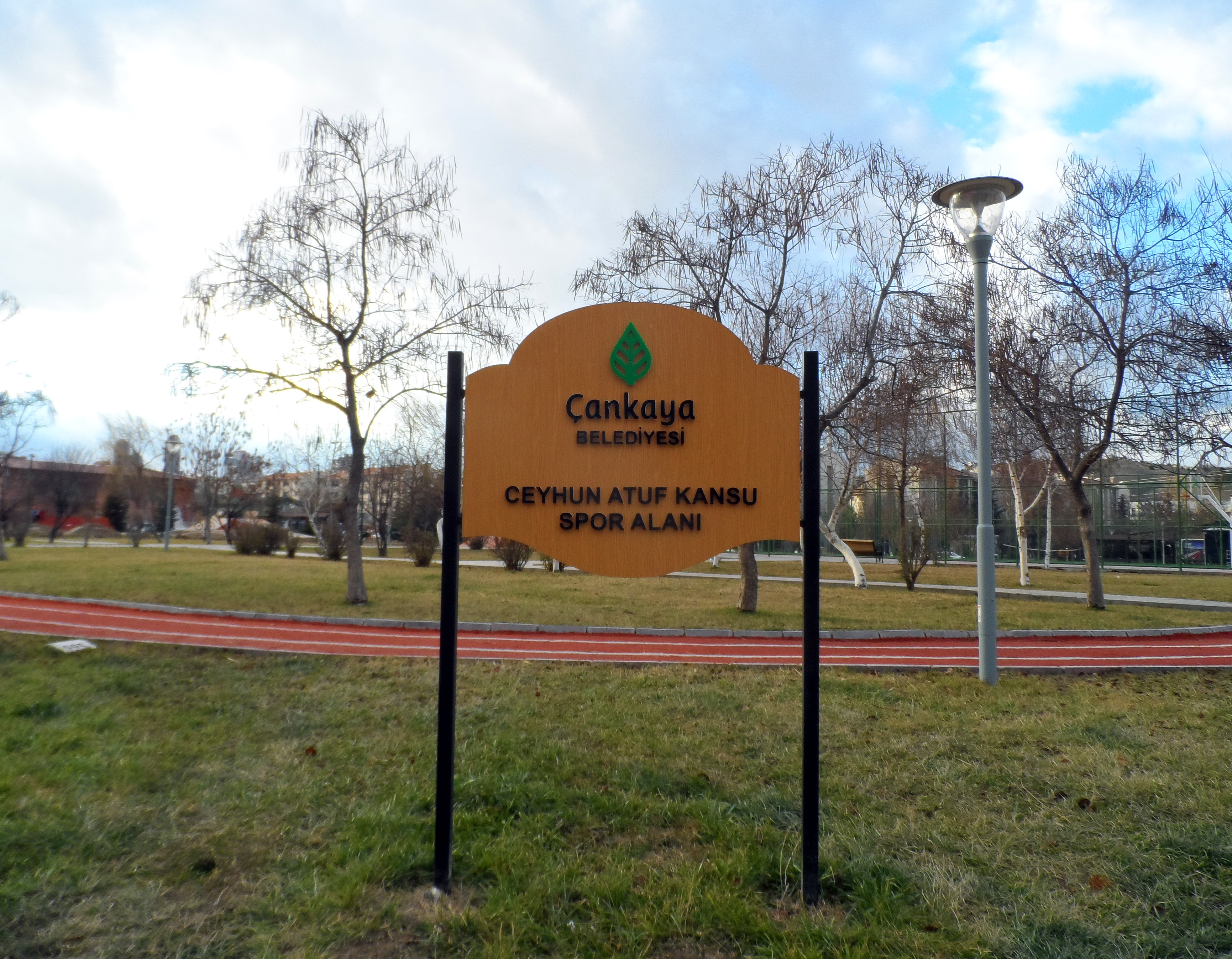 Ceyhun Atuf Kansu Playfield in Ankara